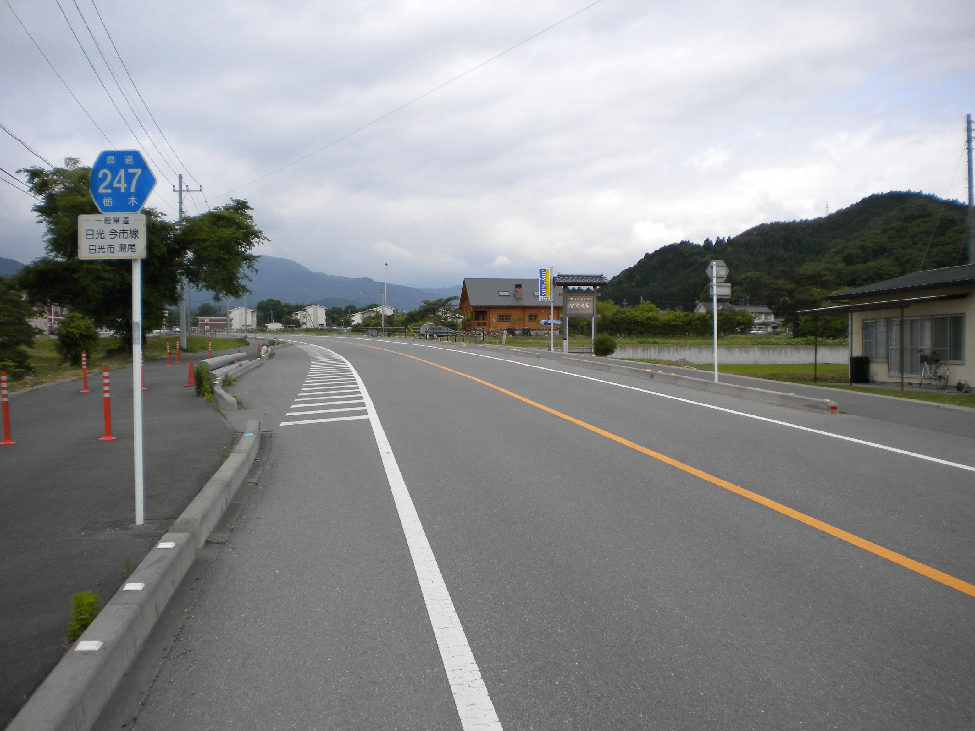 The Tochigi Prefectural Road Route 247 in Senoo, Nikko City